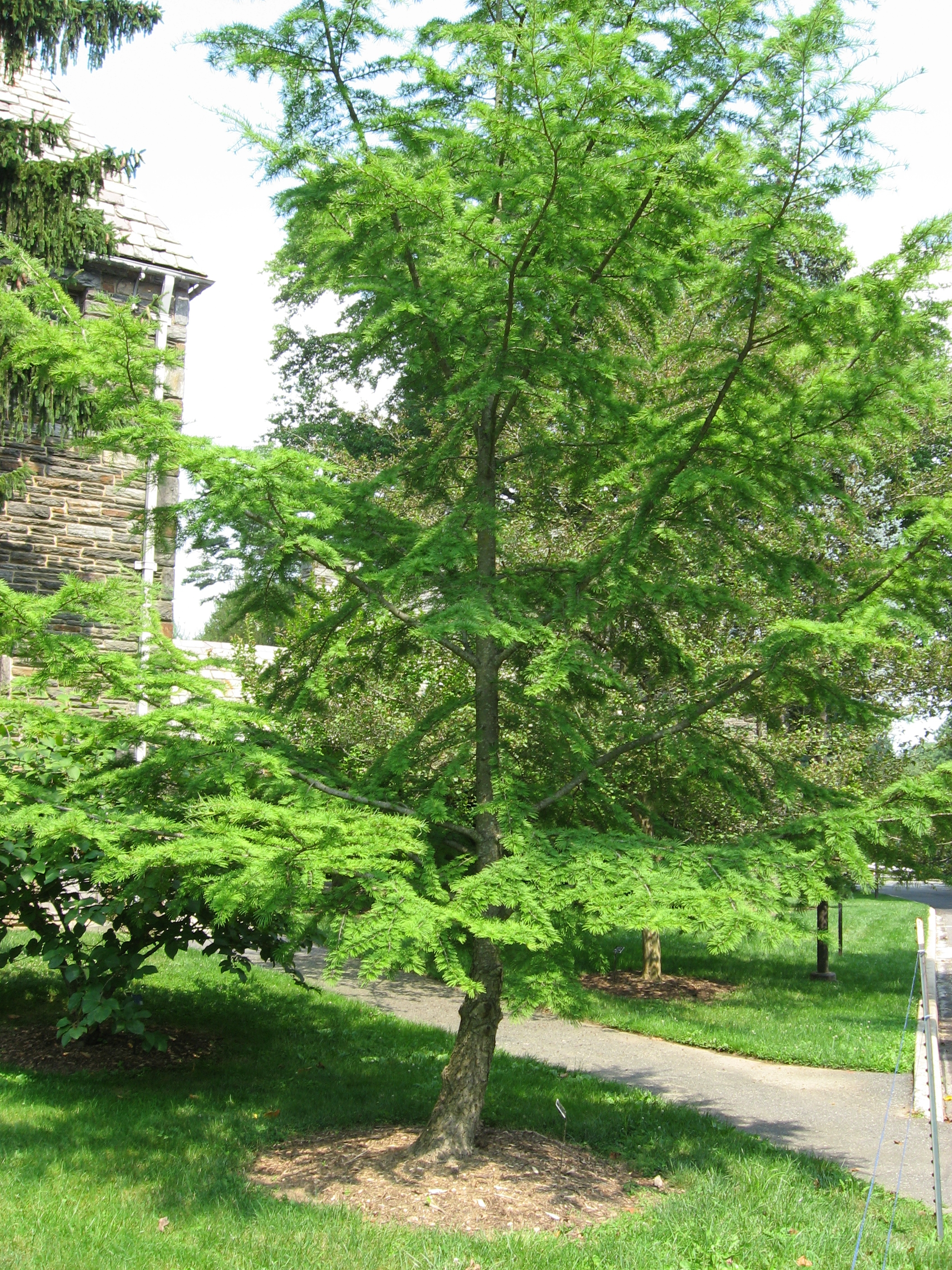 A picture of Pseudolarix amabilis.